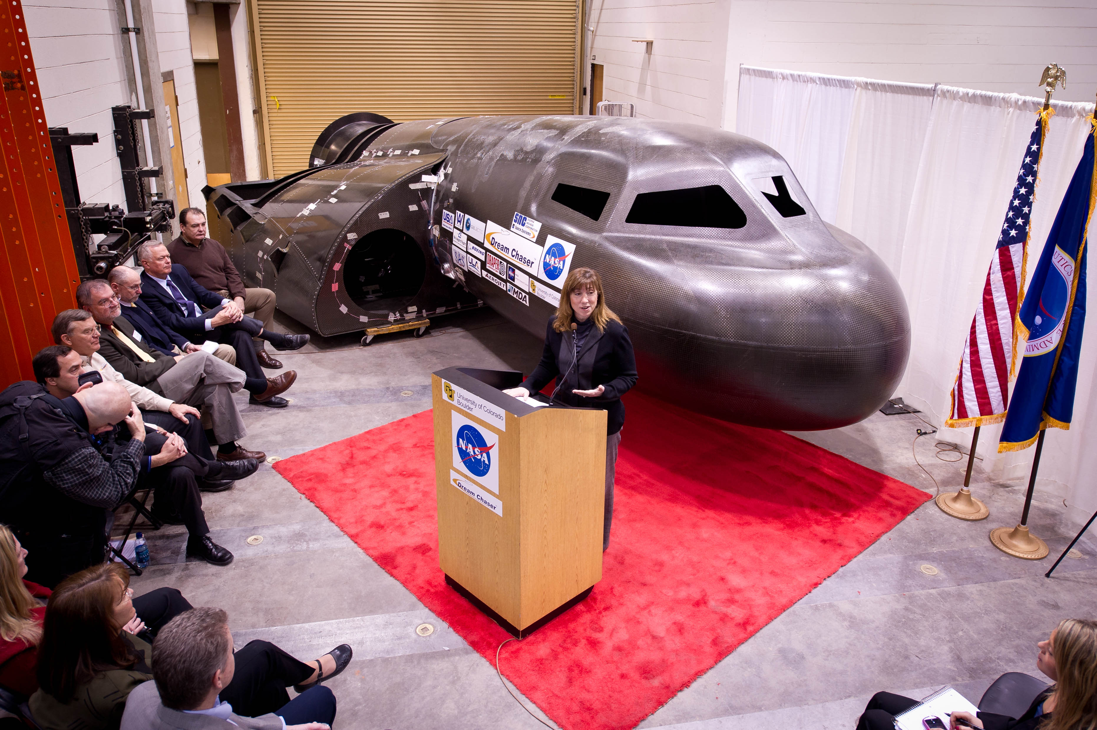 NASA Deputy Administrator Lori Garver talks during a press conference with Sierra Nevada's Dream Chaser spacecraft, the atmospheric flight test vehicle, in the background on Saturday Feb. 5, 2011, at the University of Colorado at Boulder.[1]